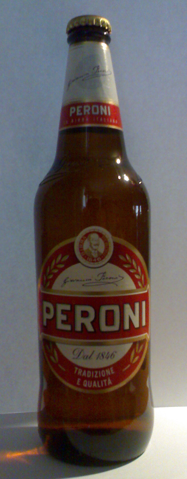 A 66cl bottle of Birra Peroni